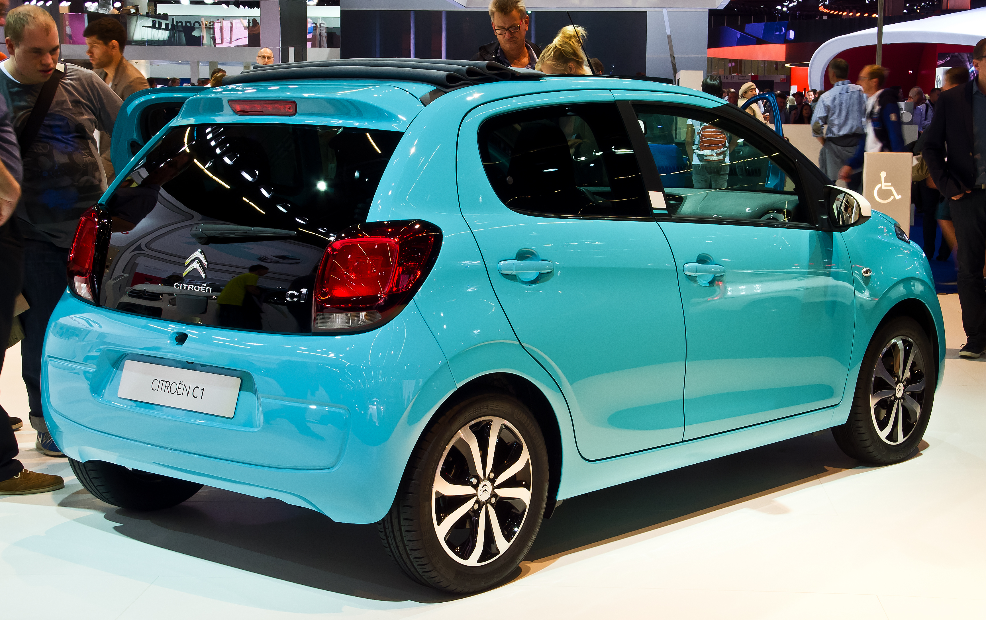 Citroën C1 PureTech 82 Airscape Feel Edition (II)